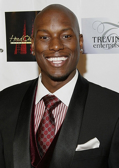 Tyrese Gibson in December 2008